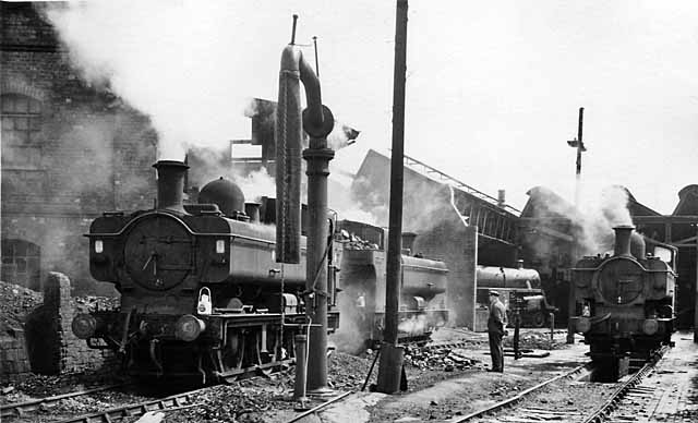 Croes Newydd (Wrexham) Locomotive Yard. Scene in yard outside the Shed (roundhouse); ex-Great Western Depot south of Wrexham Exchange station in the triangle at the junction of the main line to Shrewsbury and branch to Rhos. Coded 84J by BR, it had an allocation of 53 locomotives (39 tank engines) in 1950, which was largely intact when this photograph was taken in 1966 - modernization having not yet reached the NE Wales mineral lines; three 0-6-0 Pannier tanks feature, but a BR Standard 4-6-0 is visible inside. The Depot lasted until 5/6/67.